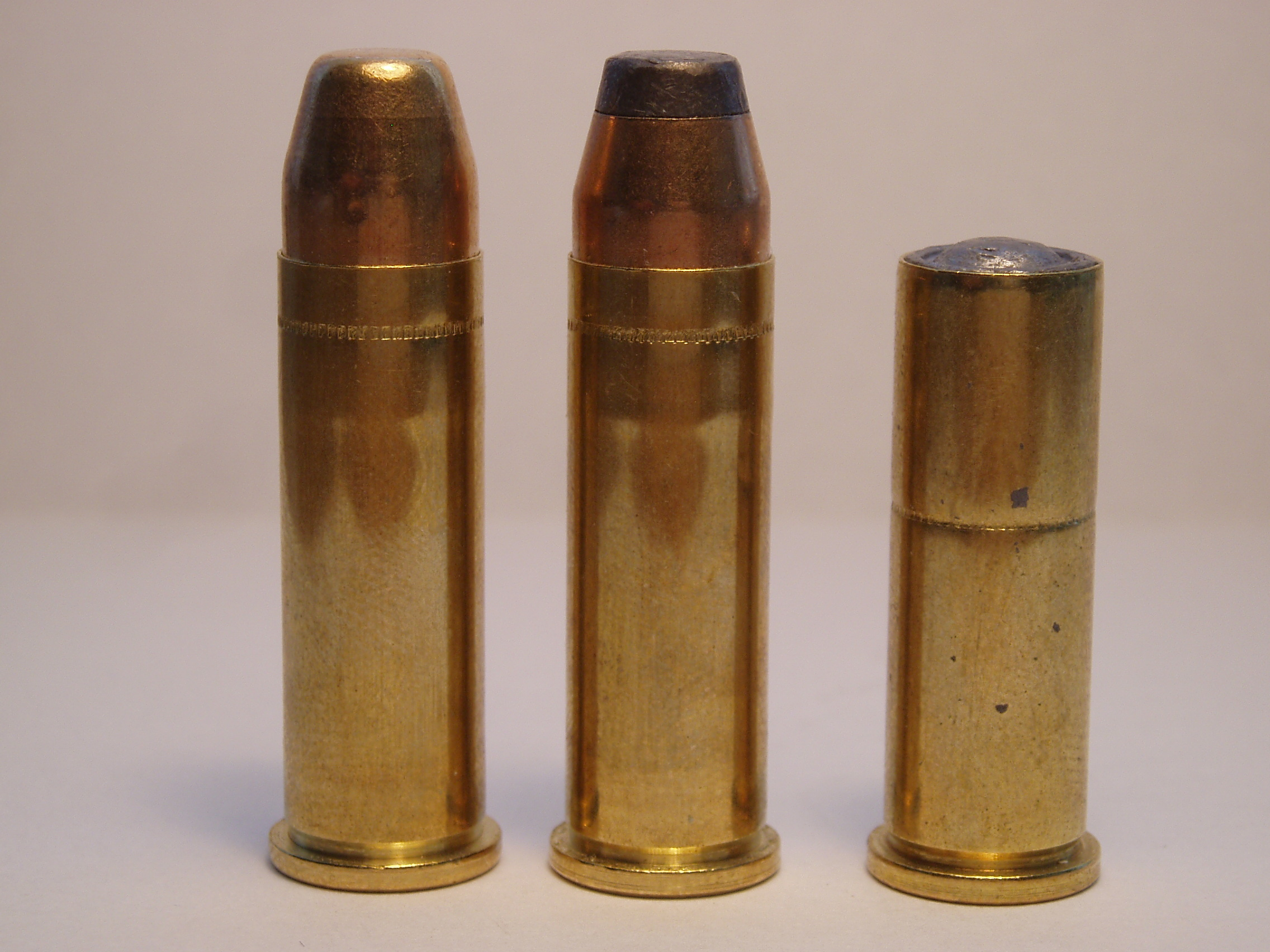 .38 Special revolver cartrdige.From left to rightFMJ, SP and wadcutter bullet. Manufacturer: Sellier & Bellot.